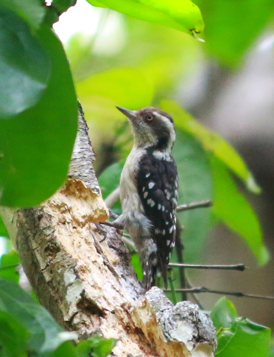 Brown capped woodpecker